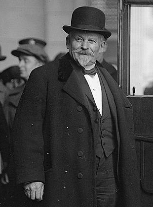 French pharmacist and psychologist Émile Coué (1857-1926) on a visit to the United States in January 1923.